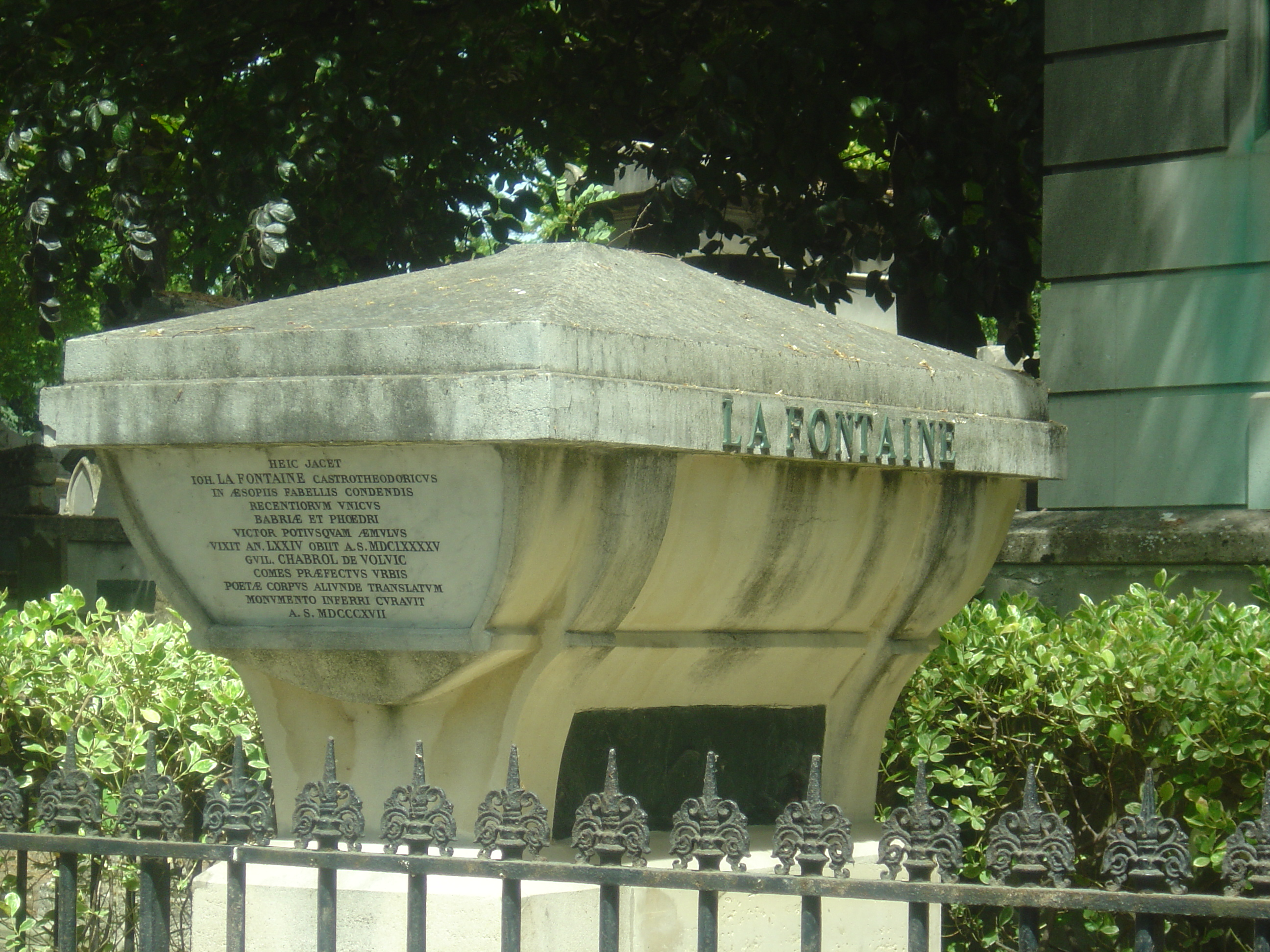 Tomb of La Fontaine, Pere Lachaise, Paris